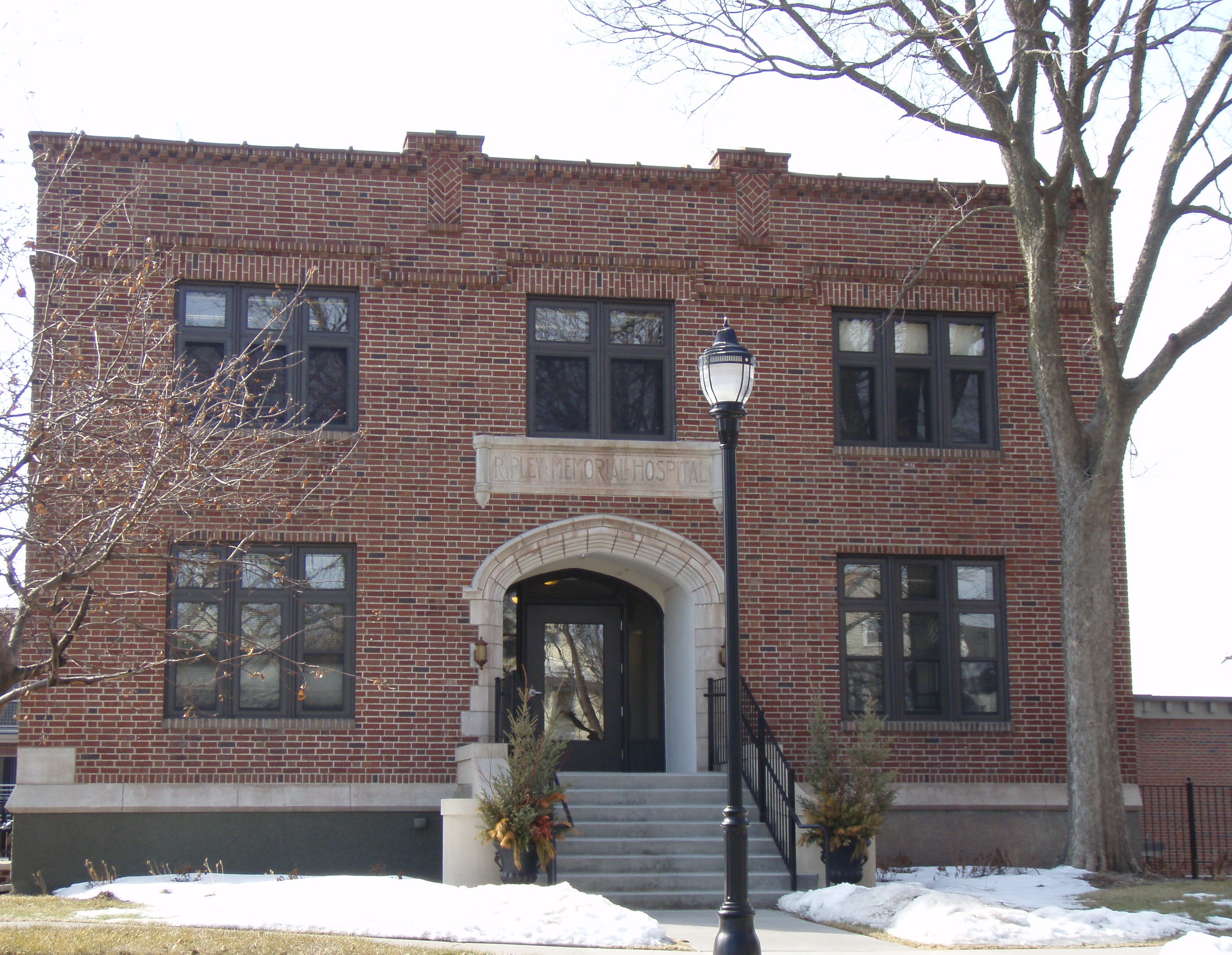 Ripley Memorial Hospital in Minneapolis, Minnesota, listed on the National Register of Historic Places.